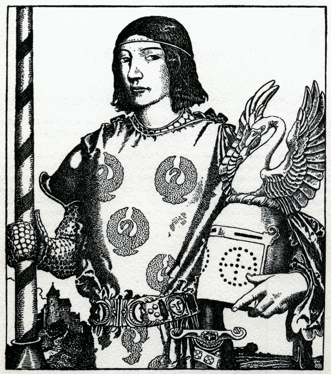 Howard Pyle illustration from the 1903 edition of The Story of King Arthur and His Knights scanned and archived at where it was marked as Public Domain.